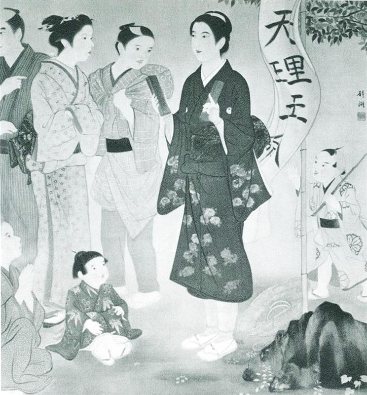 Depiction of Nakayama Kokan in Osaka doing missionary work. The banner behind her reads Tenri-O-no-Mikoto (天理王命).